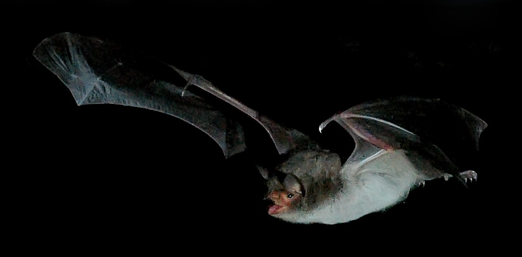 Long Fingered bat, Myotis capacciniiEuskara: Saguzar Hatzluzea, Myotis capaccinii